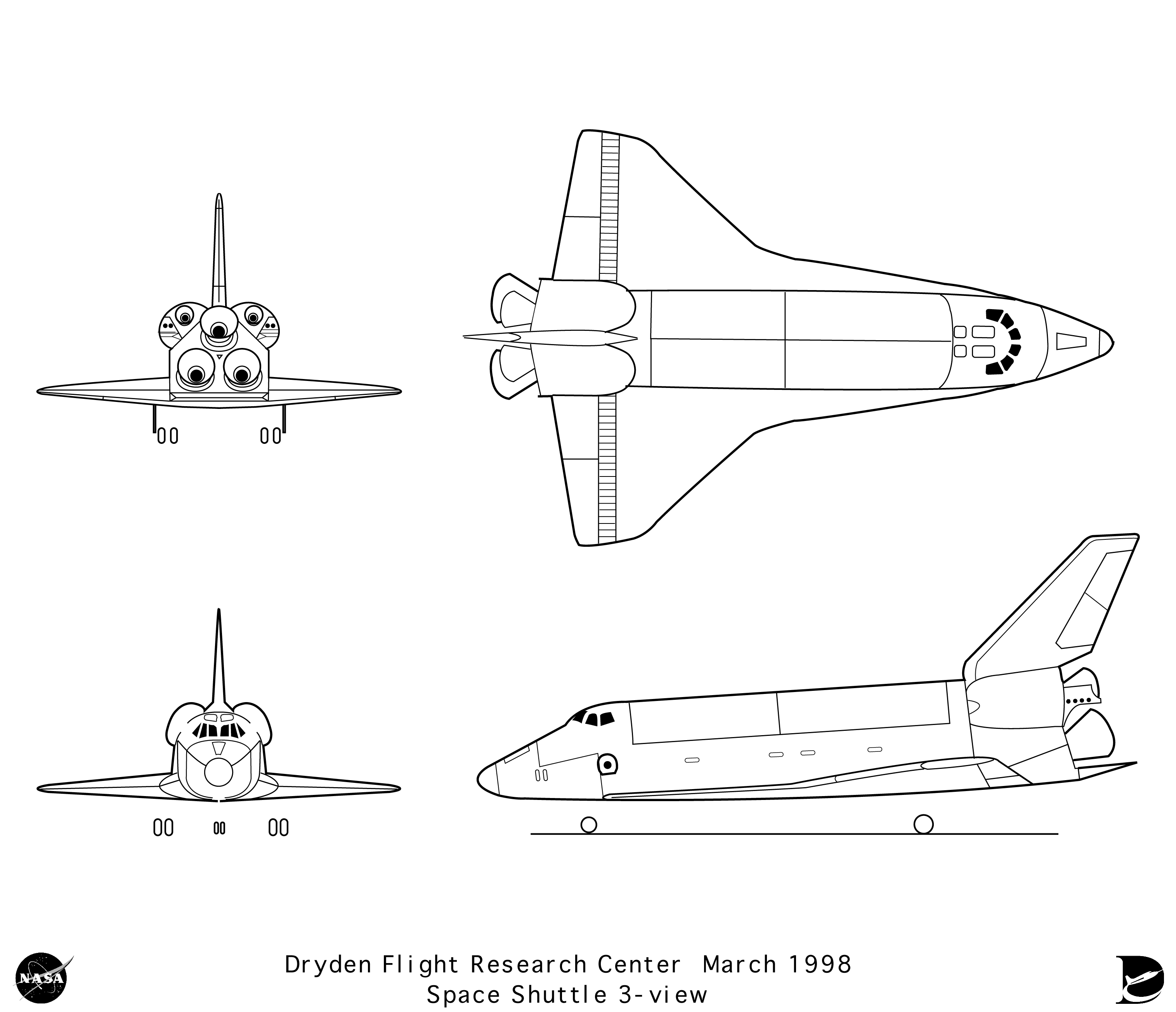 Space Shuttle orbiter 4-view diagram.